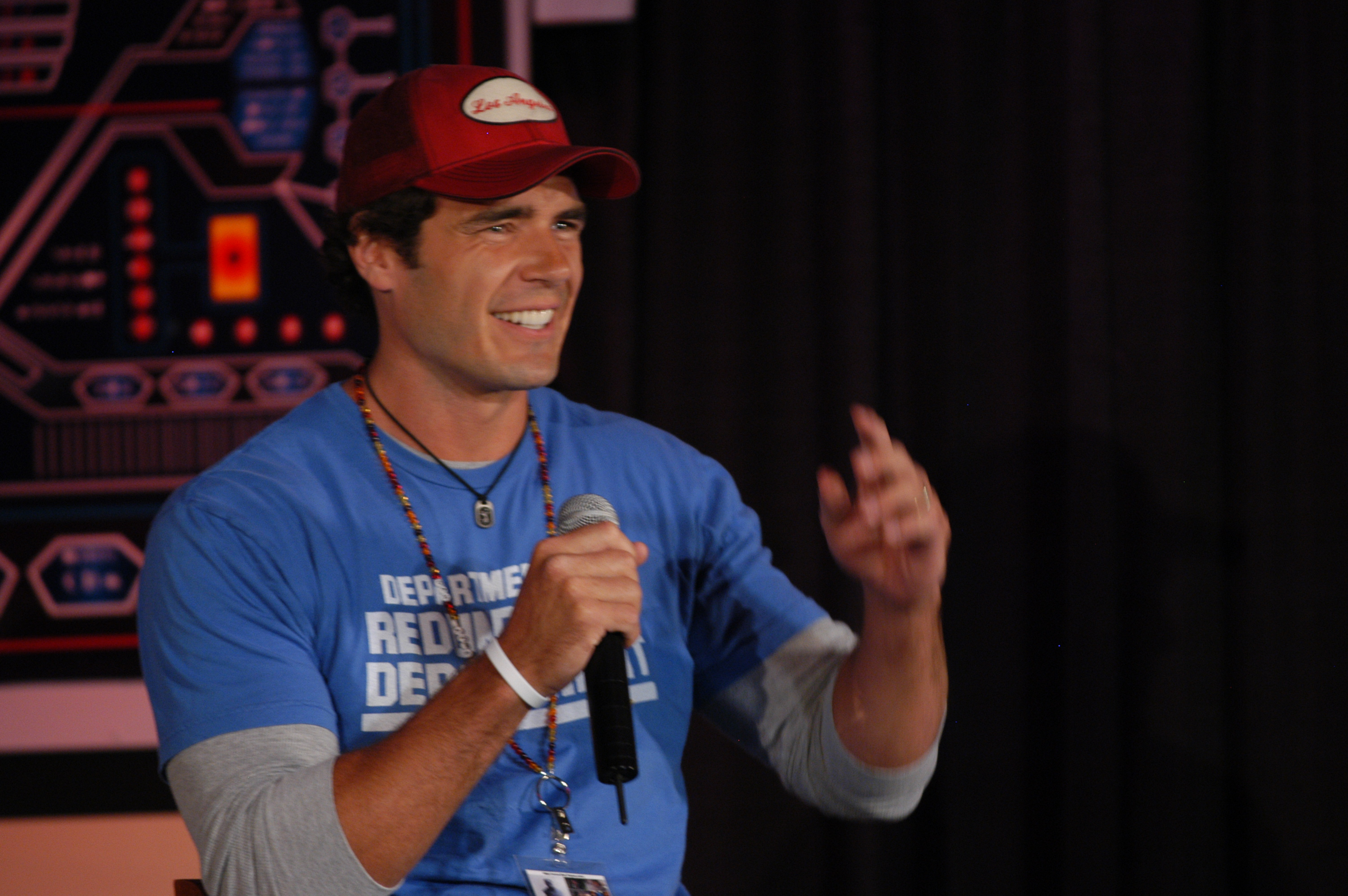 Dan Payne at the Gatecon 2005 convention in Vancouver (Canada).